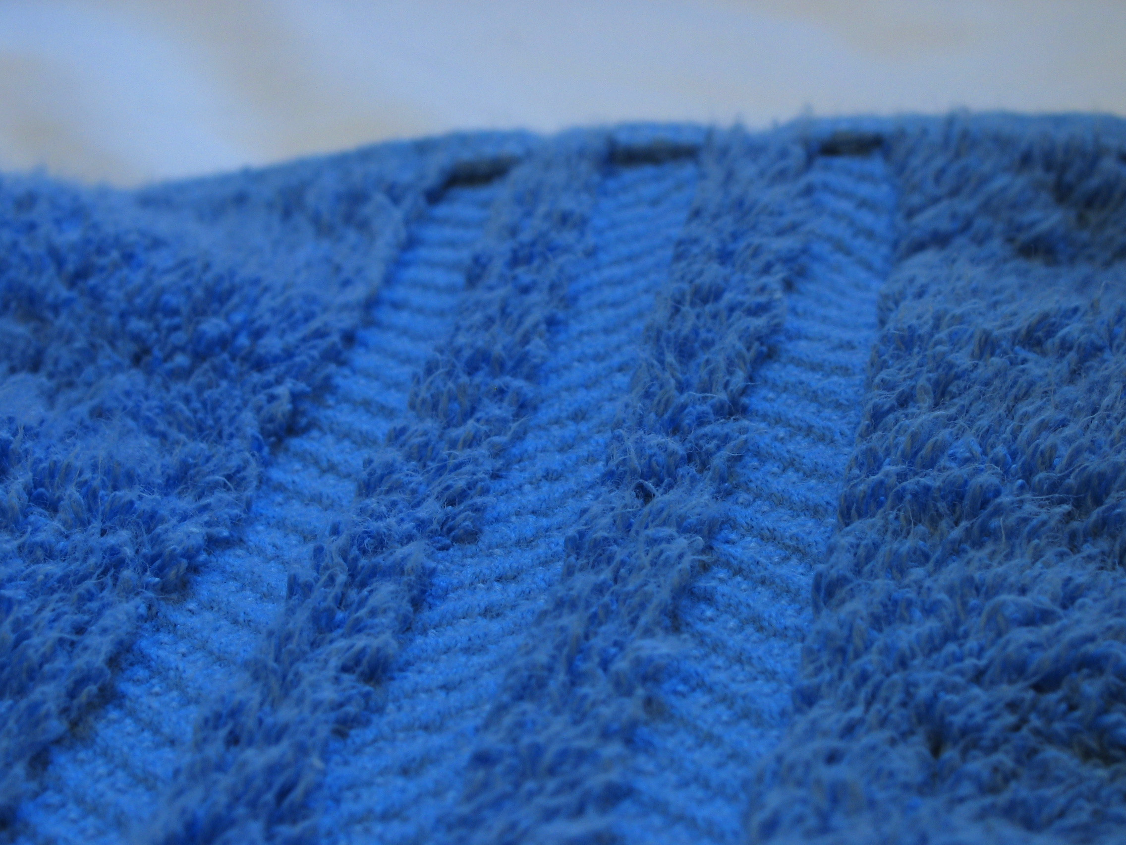 This photo shows a close-up photo of part of a bath towel. It shows the main towel part, and three decorative stripes.